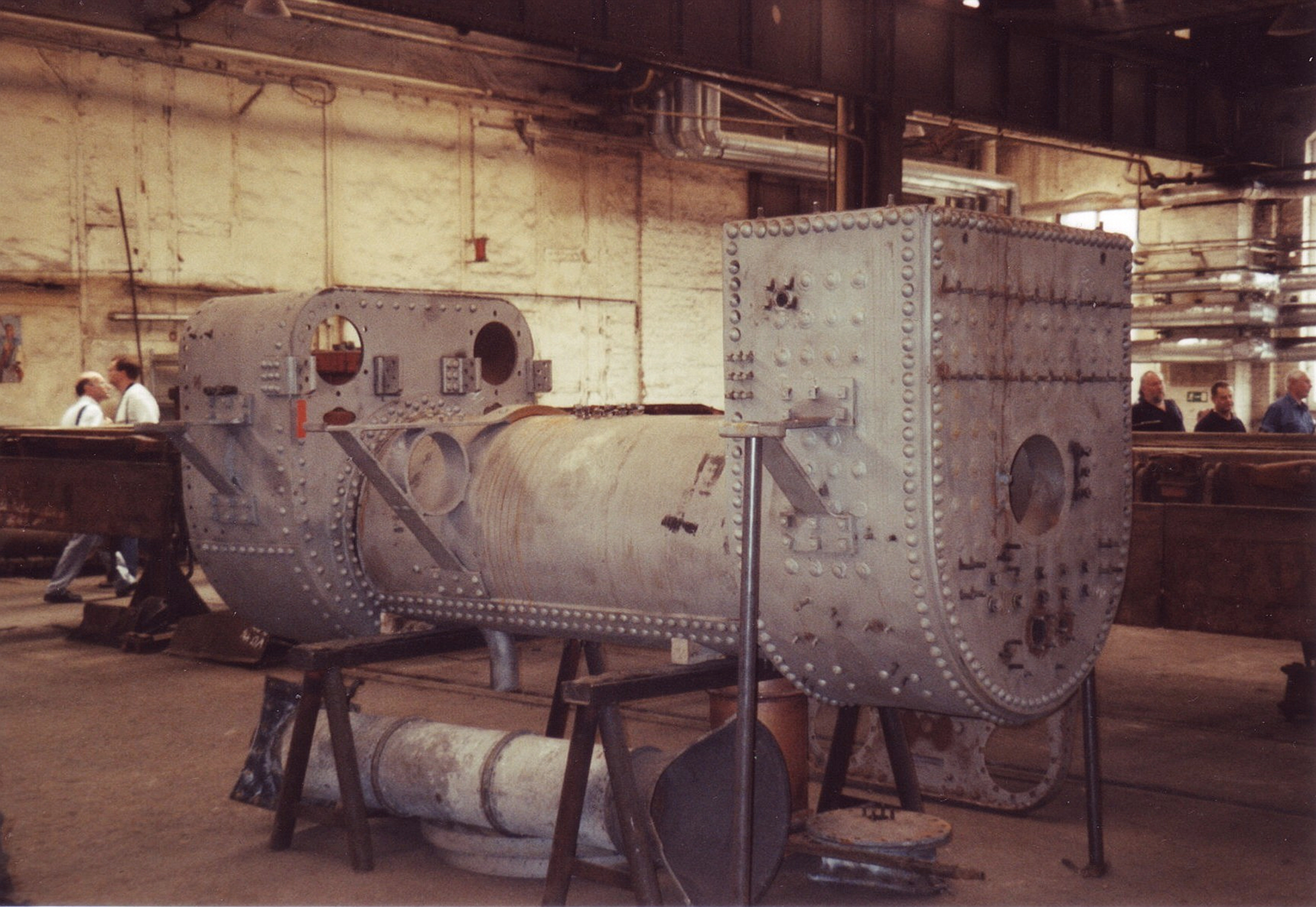 boiler and chimney of the first steam locomotive in Germany Adler (reproduction of 1935) in the Dampflokwerk Meiningen, Germany at the Dampfloktage, September 2006